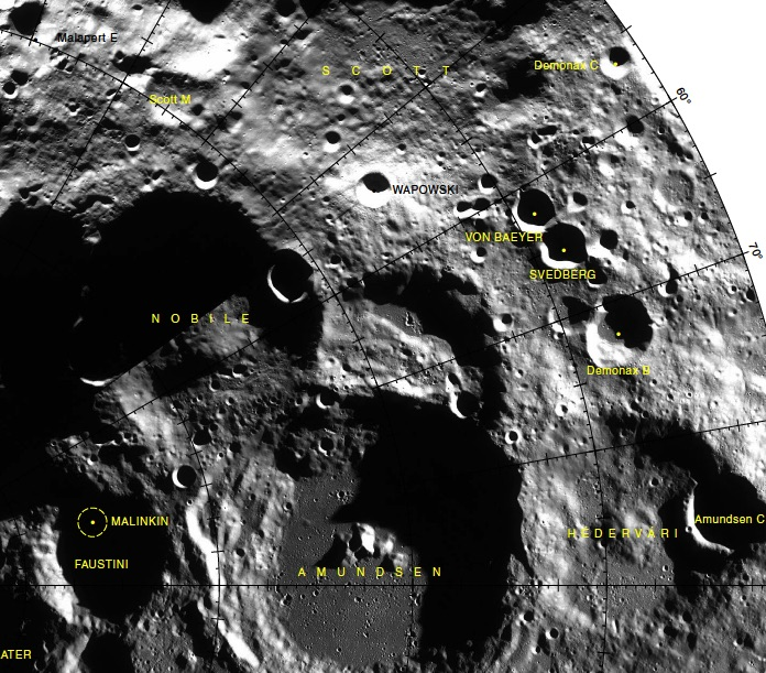 Part of the chart LAC-144